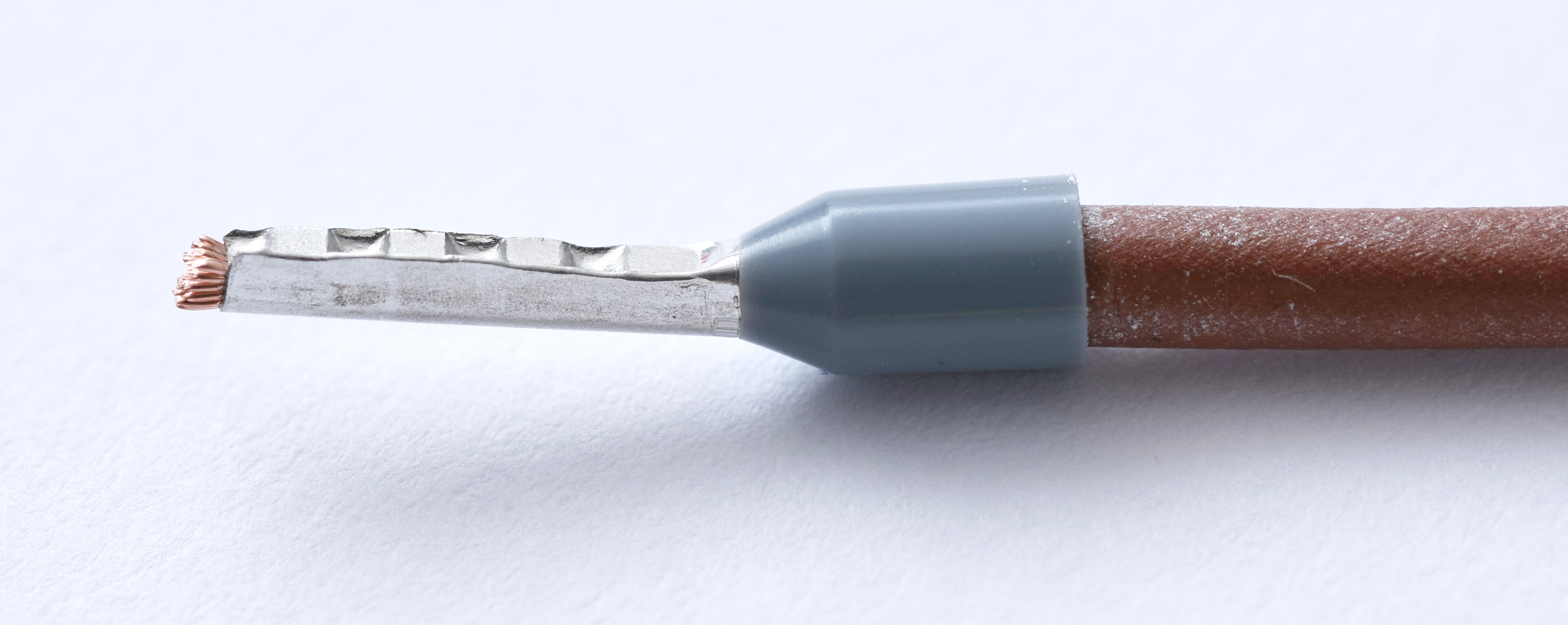 Wire ferrule crimped on a wire